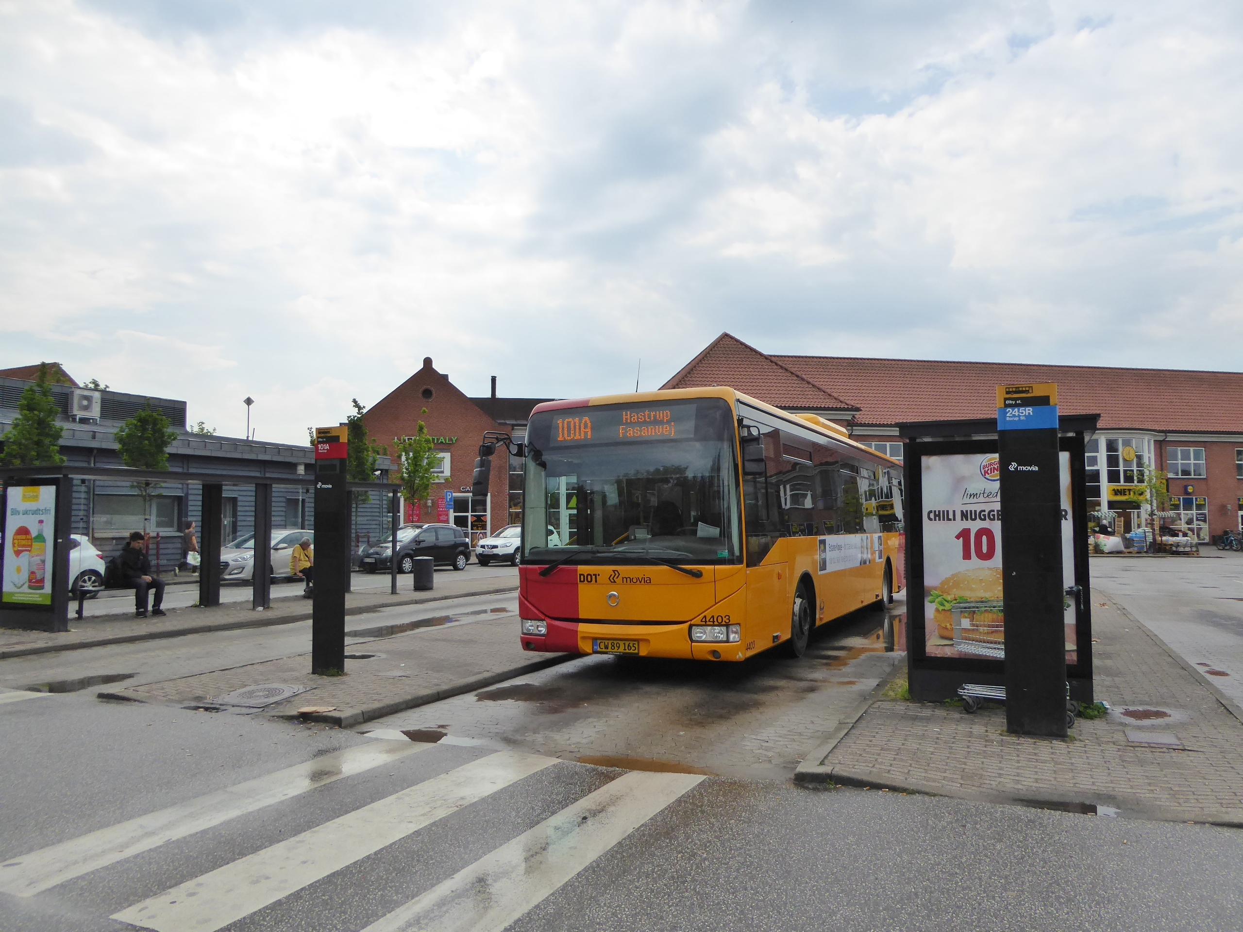 Movia bus line 101A at Ølby Station in Denmark.